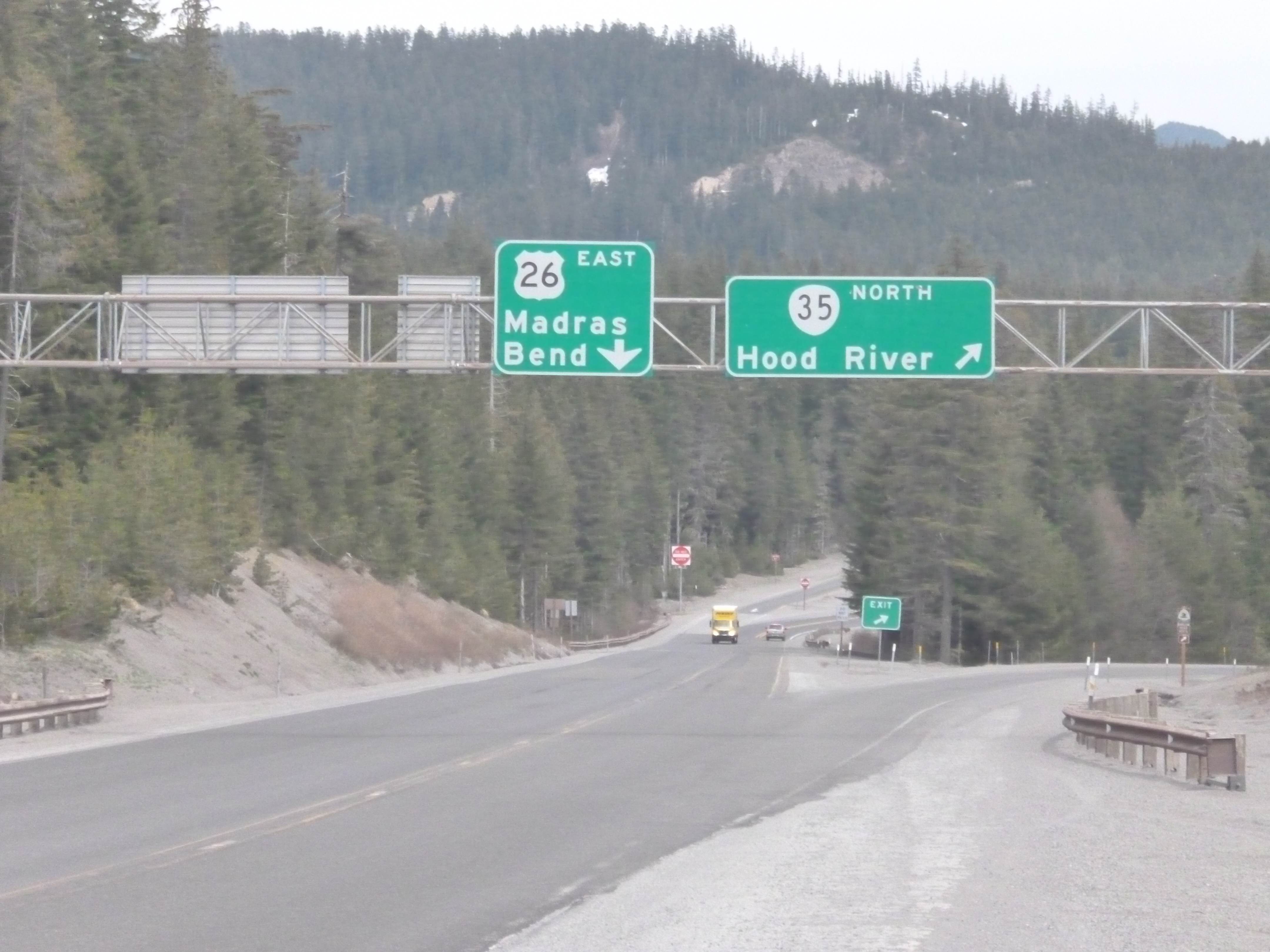 Oregon Route 35 & US 26 Intersection near Mt. Hood.